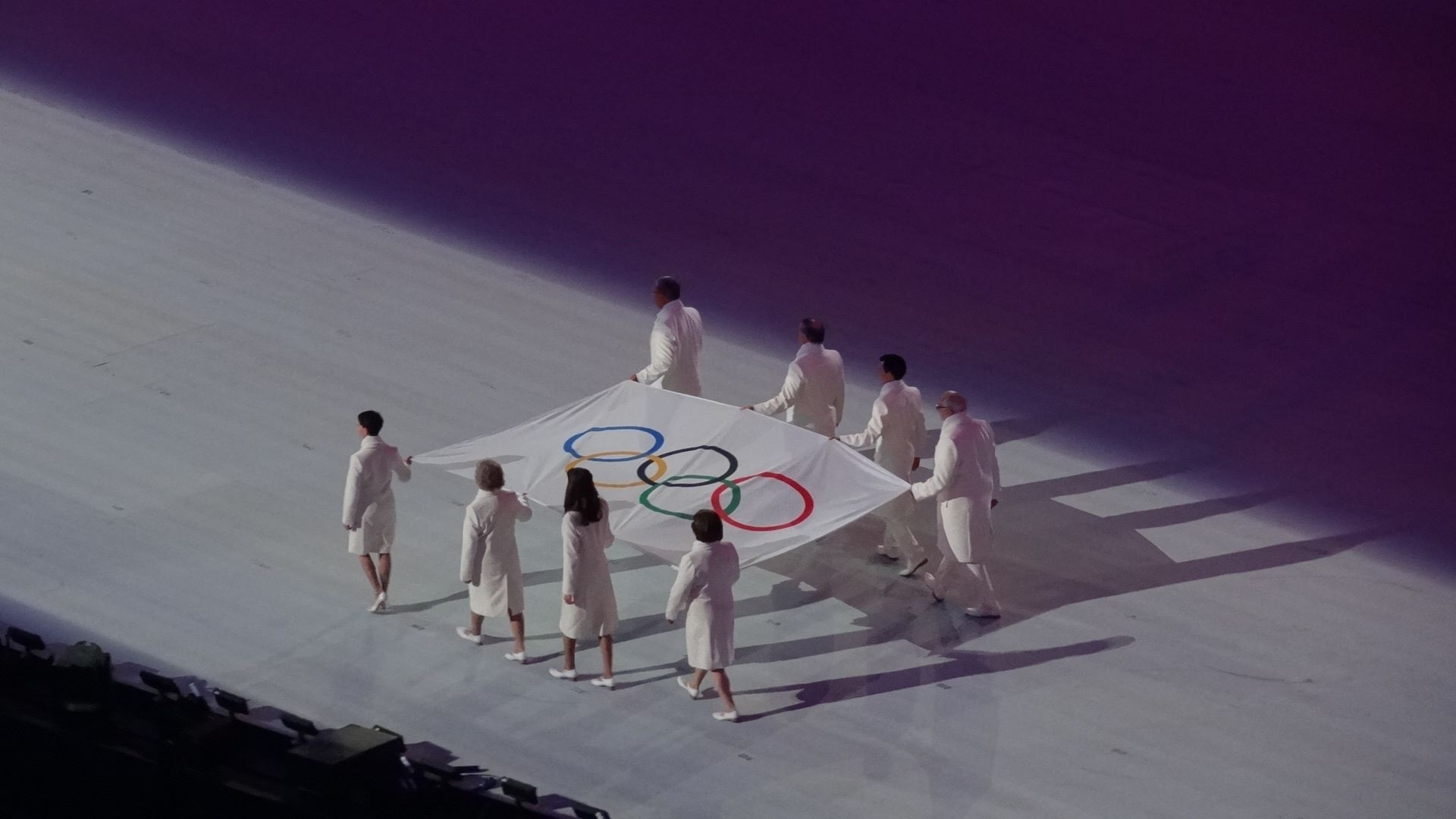 Olympic flag, 2014 Winter Olympics opening ceremony